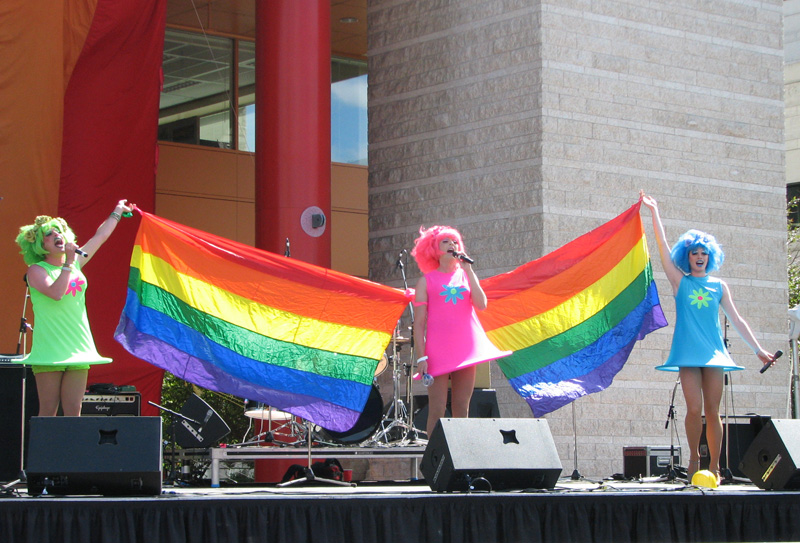 My own pictures